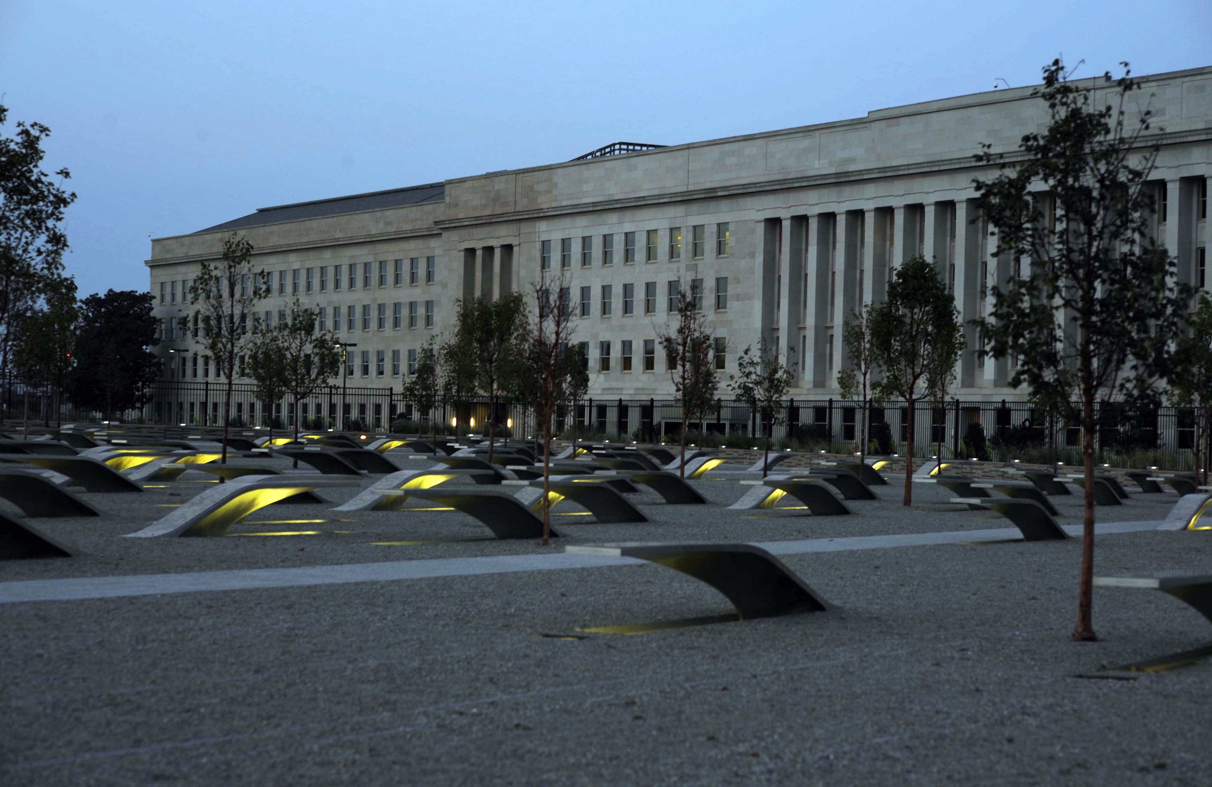 WASHINGTON (Sept. 4, 2008) The Pentagon Memorial honoring the 184 people killed at the Pentagon and on American Airlines flight 77, which was flown into the building during the Sept. 11, 2001 terrorist attacks, will be dedicated at a ceremony on Thursday, Sept. 11 2008. The Pentagon Memorial will be the first official monument to the victims of the terrorist attacks seven years ago. U.S. Navy Photo by Mass Communication Specialist 1st Class Brien Aho (Released)